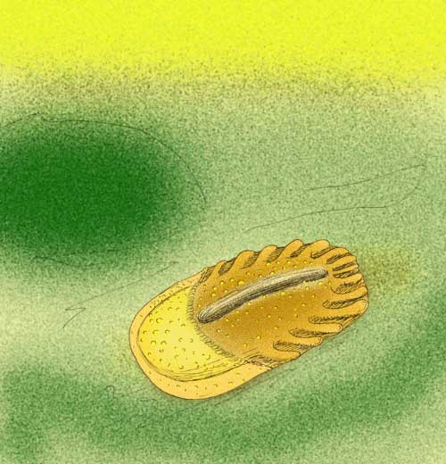 The proarticulatan Lossinia lissetski, from what is now the shores of the White Sea. While its status as a proarticulatan is not in doubt, what with displaying the diagnostic "staggered symmetry," its position within Proarticulata is uncertain, aside from being very closely related to Onega stepanovi and possibly Tamga hamulifera. L. lissetski was a very small animal, being around 2 millimeters in length.